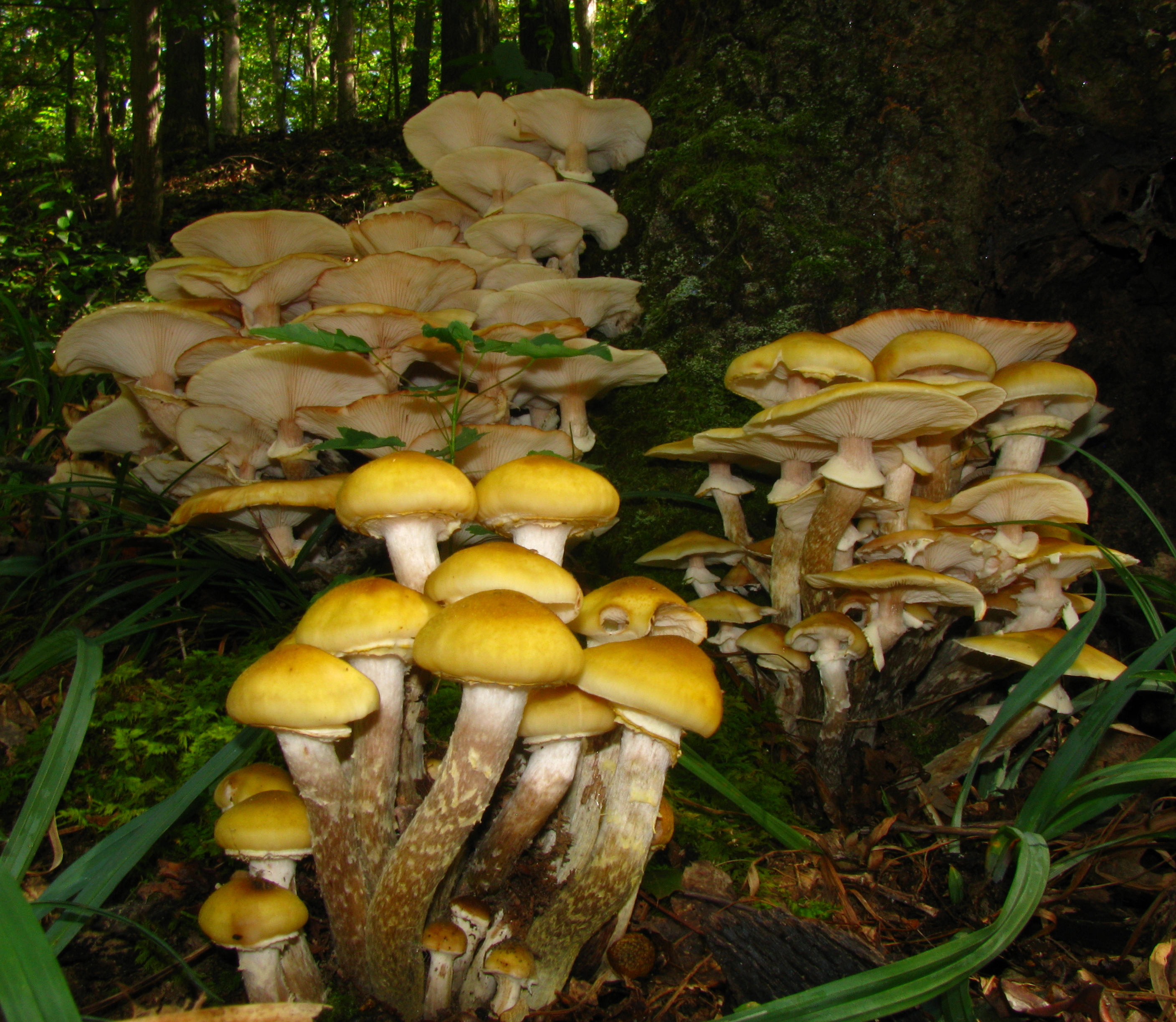 Fruit bodies of the honey fungus Armillaria mellea (Vahl) P. Kumm. Photographed in Strouds Run State Park, Athens, Ohio, USA.